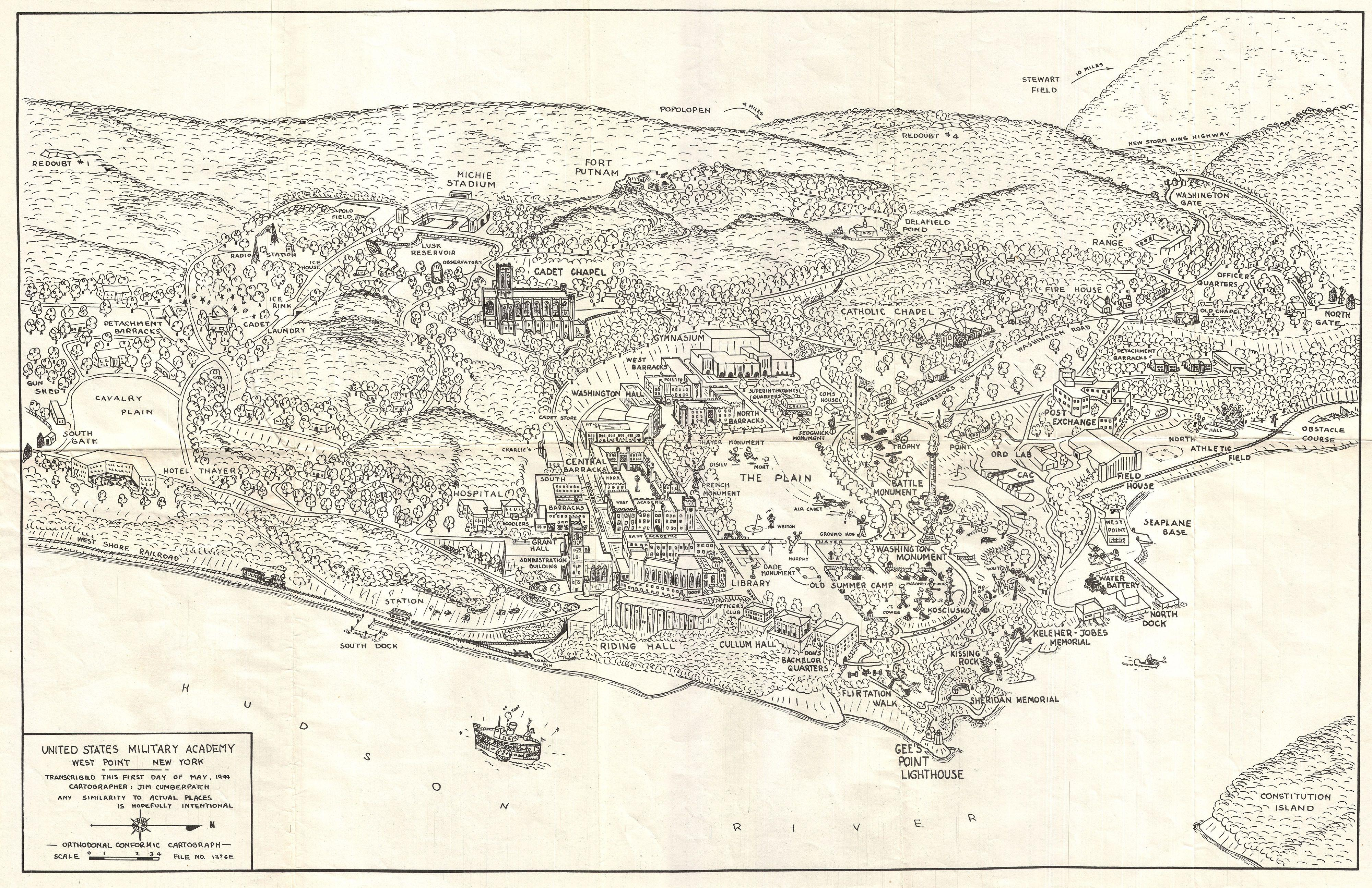 This is an uncommon view or map of the United States Military Academy at West Point, New York. It was drawn in 1944 by Jim Cumberpatch. Identifies various campus buildings and monuments. Also includes part of the Hudson River, the West Shore Railroad, and the surrounding hills.